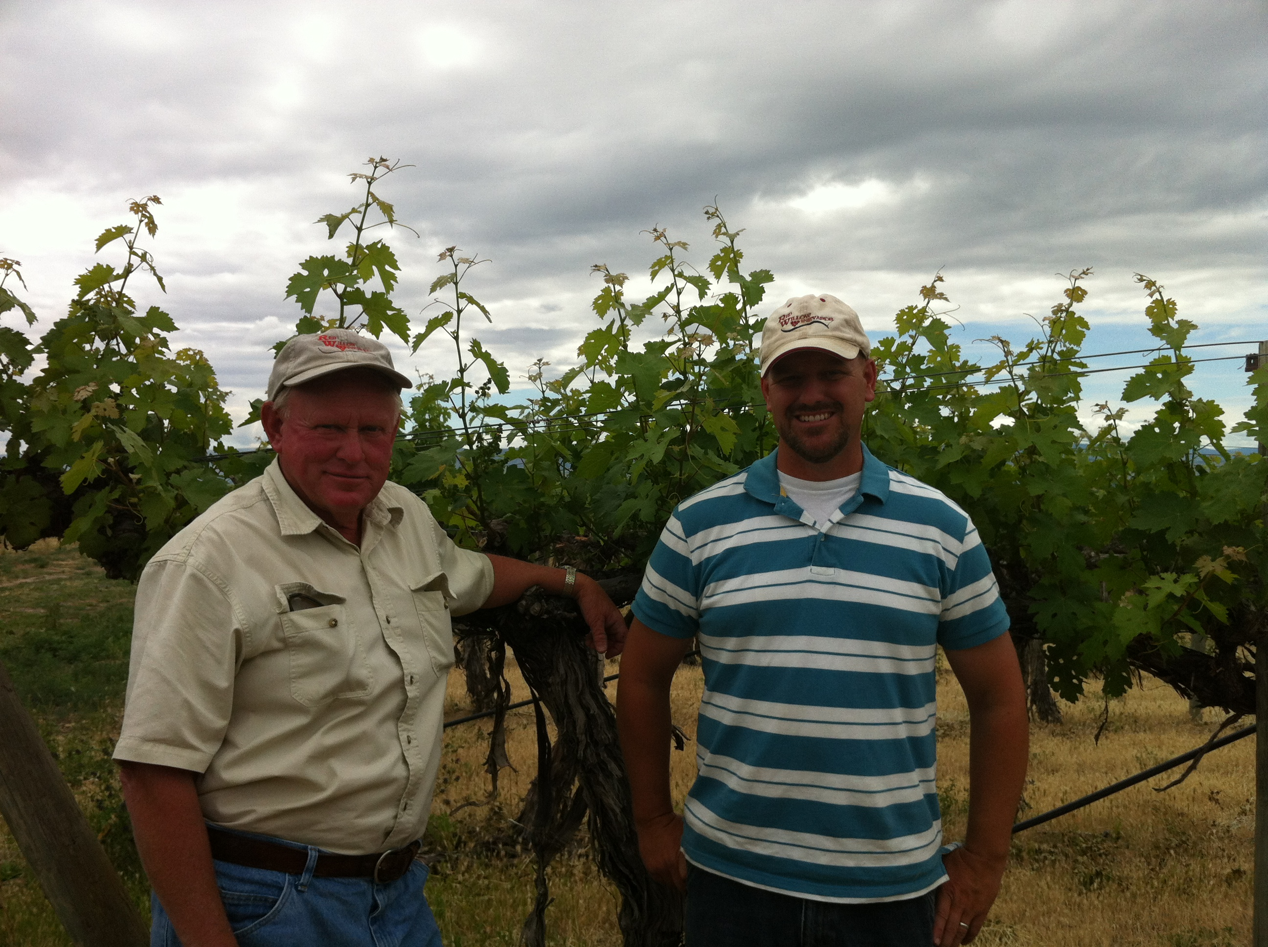 Vineyard owner and manager of Red Willow Vineyard in the Yakima Valley AVA of Washington State. Both men are standing in front of some of the Cabernet Sauvignon vines from the original 1973 Cab Sauv planting.